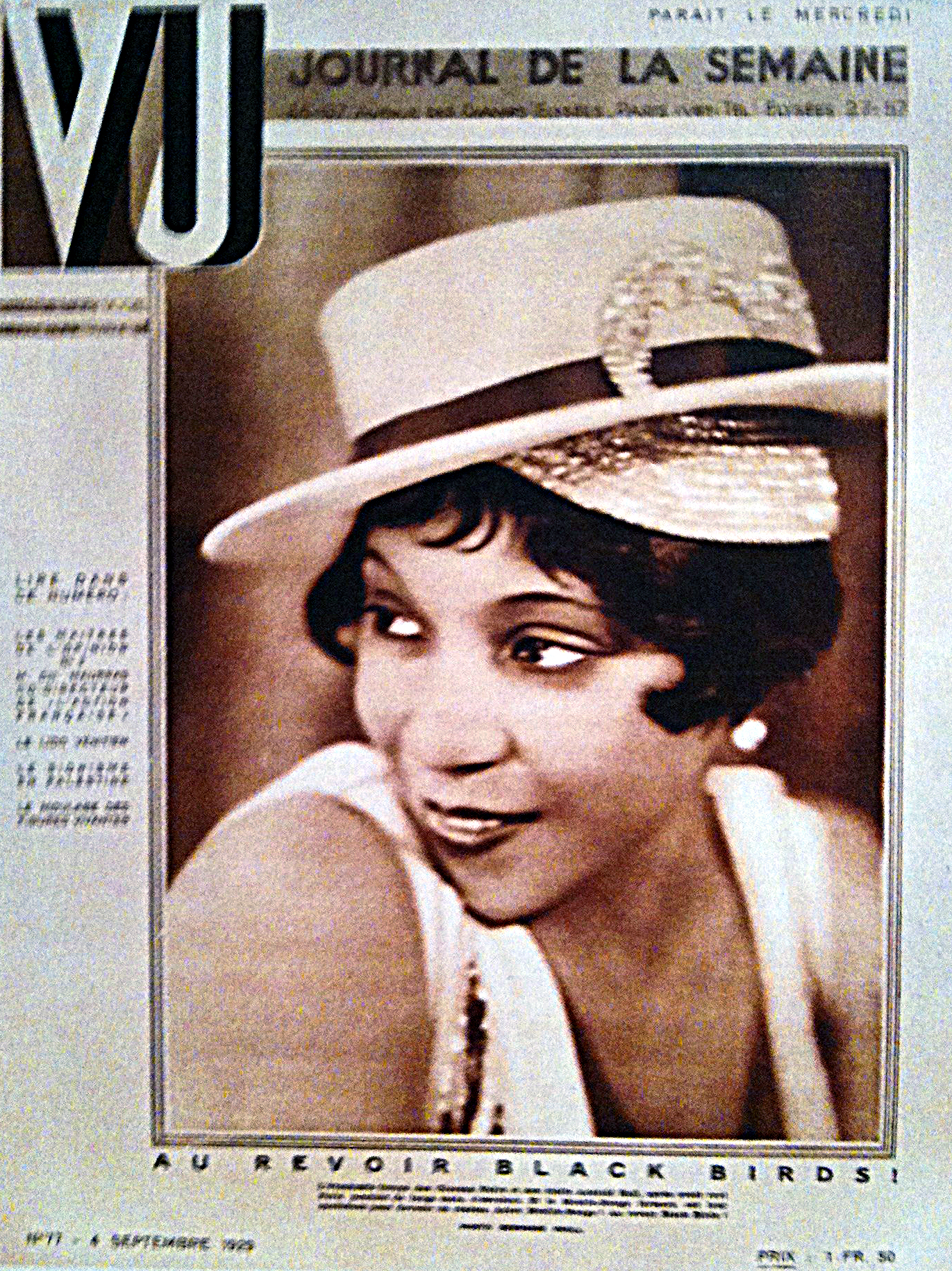 "Au revoir Black Birds !", issue 04 09 1929 front cover with Adelaide Hall from Vu, french weekly magazine (1928-1940).